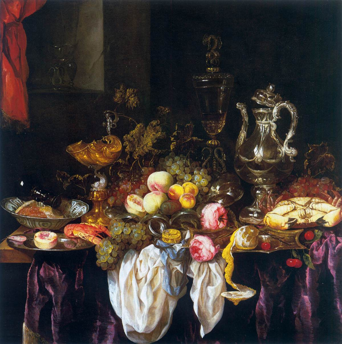 Still-Life with Fruit, Sea Food, and Precious Tableware